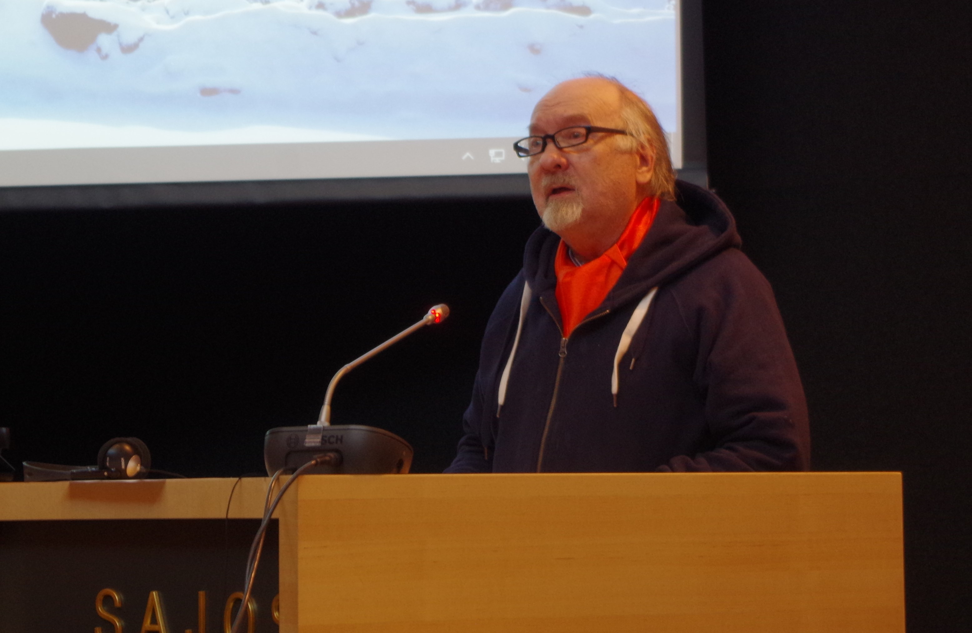 Sámi politician Pekka Aikio talking in Sámi administrative centre Sajos.